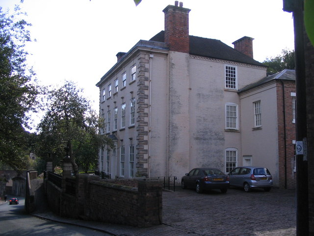 Rosehill House, Coalbrookdale One of the two Darby Houses; the other is Dale House next door. Both are open as museums providing information about the lives of the Darby's, who were instrumental in developing the iron industry in Coalbrookdale.